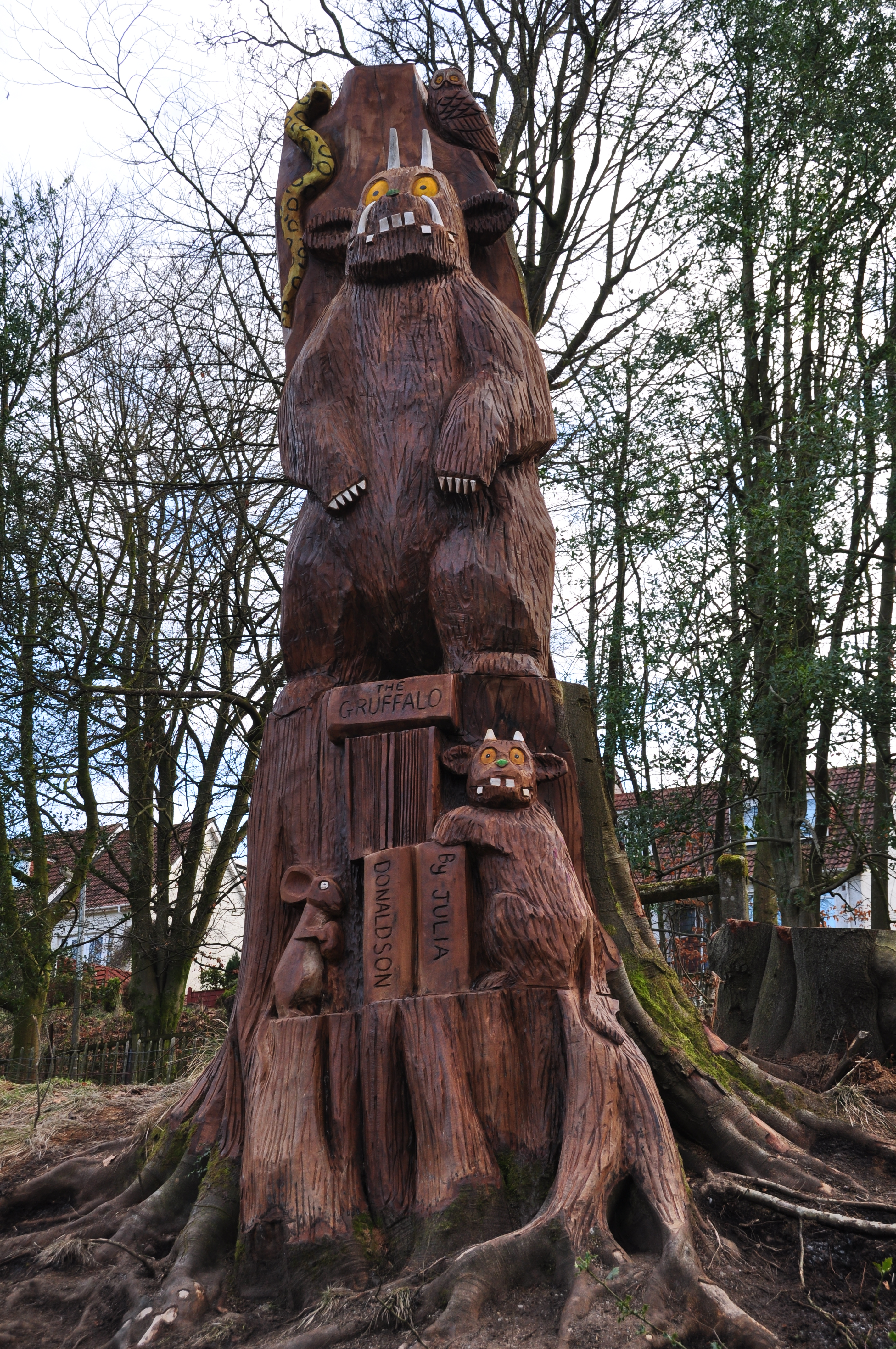 Gruffalo Sculpture, Kilmardinny Loch, Bearsden - Author Julia Donaldson lives nearby.